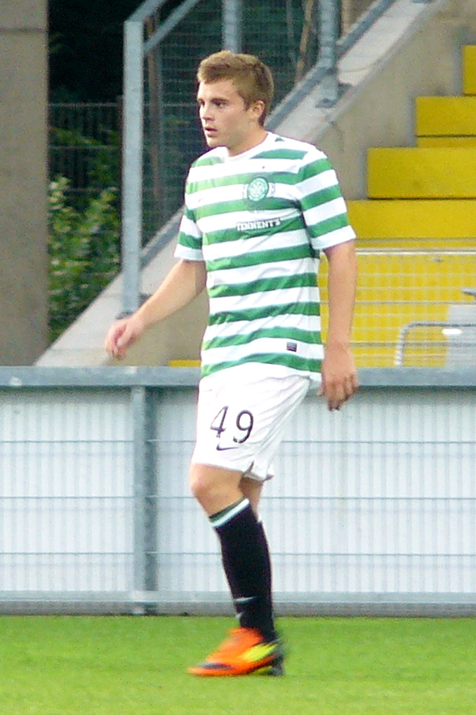 James Forrest, Scottish footballer